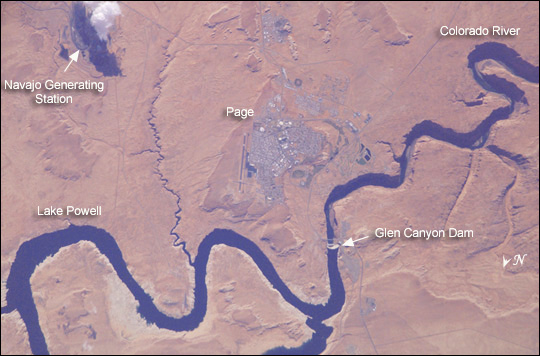 Page, Arizona This isolated community near the northern Arizona border is of special interest because of its origin and location. Unlike other towns in the area, Page was created in 1957 to house workers and their families during the construction of nearby Glen Canyon Dam on the Colorado River. Its 17-square-mile site was obtained in a land exchange with the Navajo Indian tribe. The town is perched atop Manson Mesa at an elevation of 4,300 feet above sea level and 600 feet above Lake Powell. After the dam was completed in the 1960s, the town grew steadily to today's population of 6,200. Because of the new roads and bridge built for use during construction, it has become the gateway to the Glen Canyon National Recreation Area and Lake Powell, attracting more than 3 million visitors per year. Page is also the home of two of the largest electrical generation units in the western United States. Glen Canyon Dam has a 1,288,000 kilowatts capacity when fully online. The other power plant to the southeast is the Navajo Generating Station, a coal-fired steam plant with an output capability of 2,250,000 kilowatts.